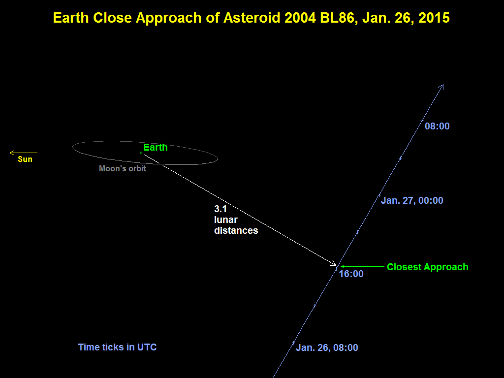 This diagram shows the close passage of 2004 BL86 on January 26, 2015. The view is nearly edge-on to the Earth's orbit; the Moon's nearly circular orbit is highly foreshortened from this viewpoint. The asteroid moves from the south to the north, from below the Earth's orbit to above. The indicated times are Universal Time. Closest approach occurs at about 16:19 UTC, or about 11:19 EST. The roughly 500-meter (1500-foot) asteroid approaches to within 1.2 million kilometers (750,000 miles) of Earth, or about 3.1 times the distance of the Moon.